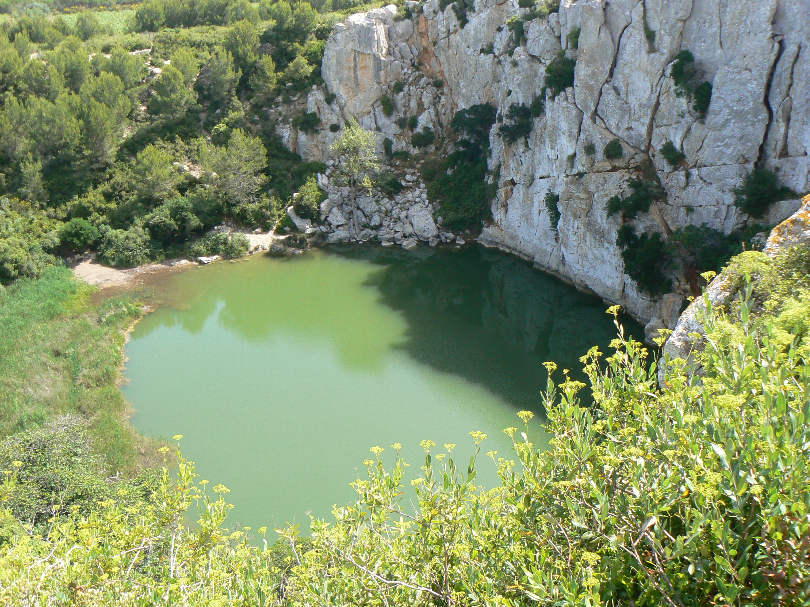 Deep resurgence pool, where a karstsystem of the calcareous „Massif de la Clape", department Aude, near the Mediterranean, drains part of its waters. The geotope is within an area protected by the directive Natura 2000.